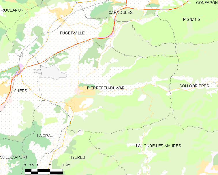 Map of French municipality Pierrefeu-du-Var